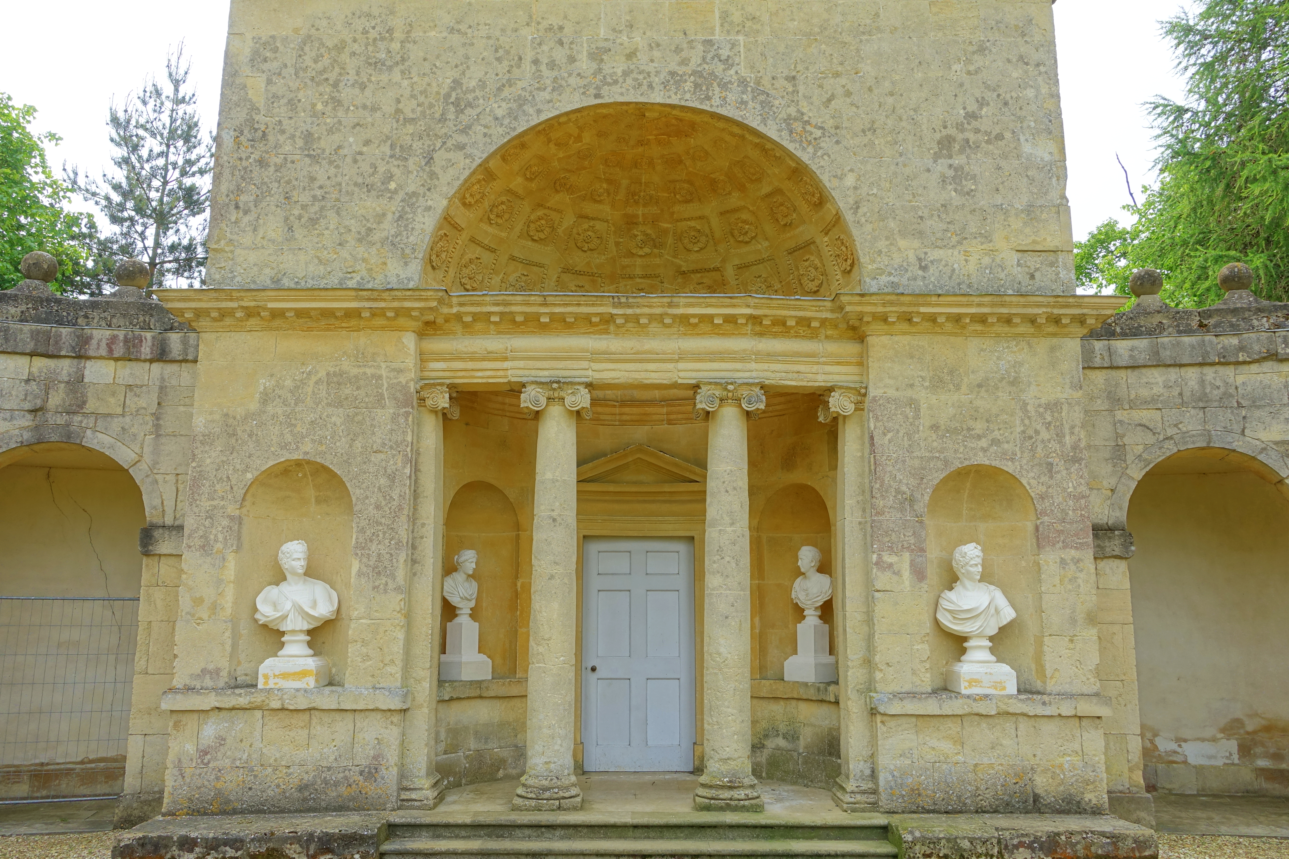 Temple of Venus, Stowe - Buckinghamshire, England.